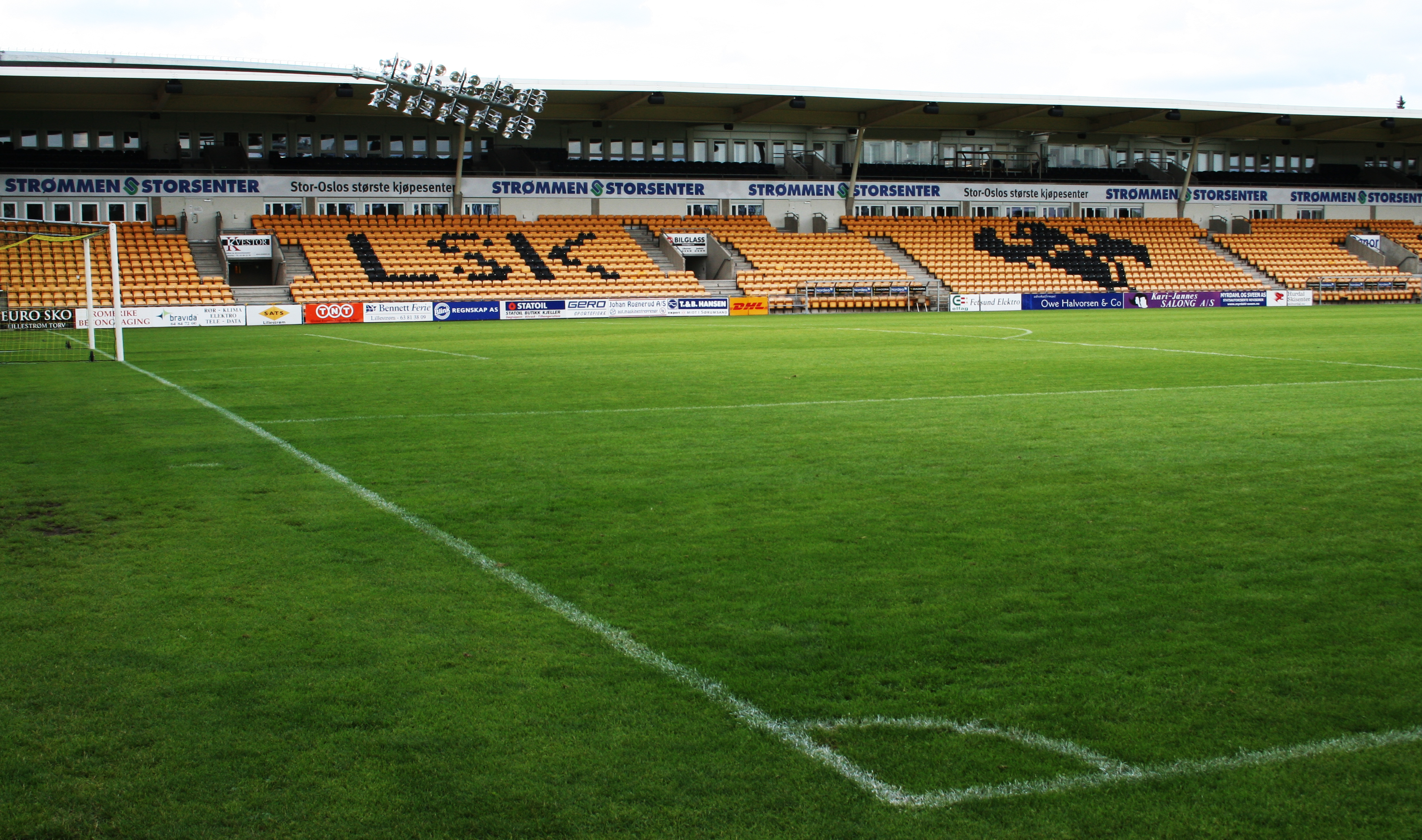 The footballstadium "Åråsen Stadion", where the norwegian football team "Lillestrøm Sportsklubb" plays its matches.